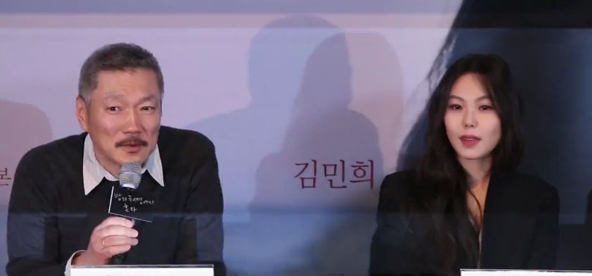 Hong Sangsoo and Kim Minhee at a press conference on 13.3.2017.